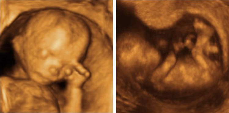 Echographies from diferent fetus. 12 weeks.